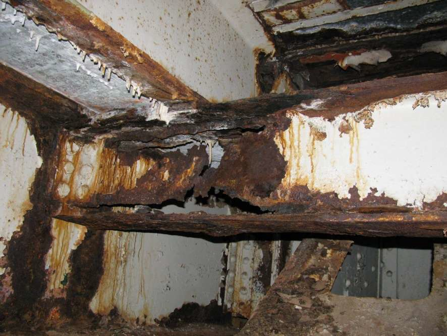 Severely rusted steel girder beneath the north sidewalk near the east bascule abutment of the Arlington Memorial Bridge over the Potomac River in Washington, D.C., in the United States. The bridge was constructed from 1925 to 1932. This photo was taken in 2013.